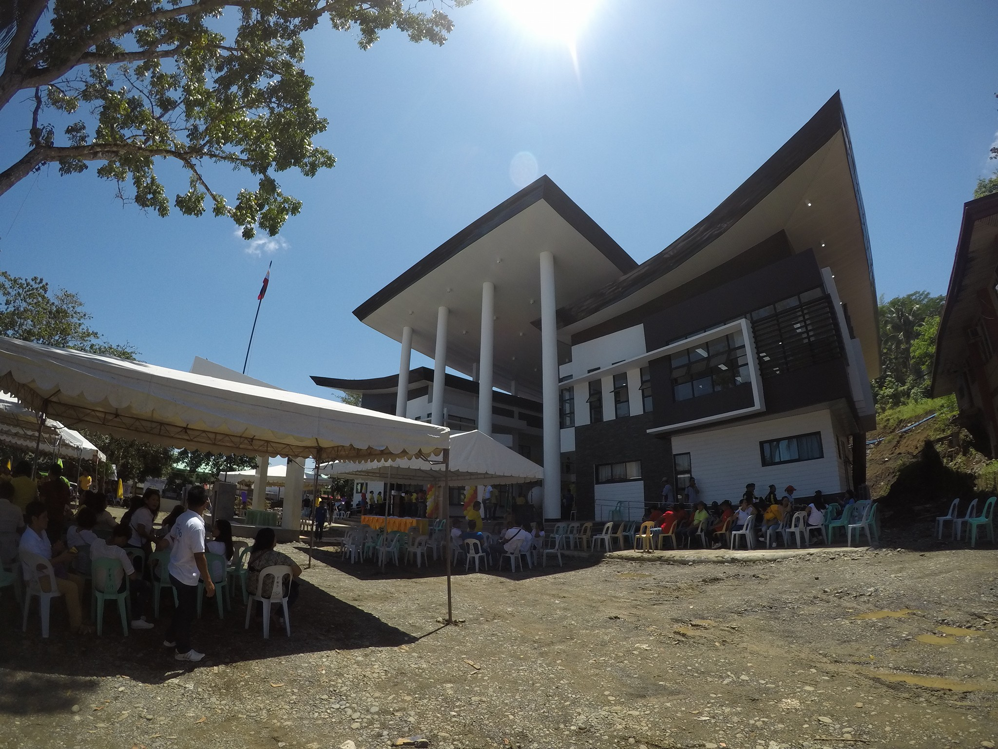 New municipal hall was unveiled in the line with their Golden Jubilee Celebration. Source from Municipality of San Luis in Agusan del Sur and it is Public Domain.